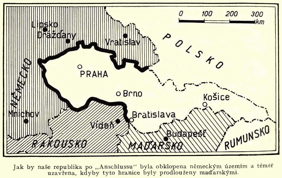 Map of borders between interwar Czechoslovakia and interwar Germany if Austria were to become part of Germany. The descriptions are in Czech.